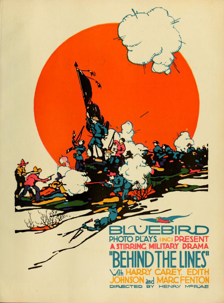 Advertisement in Moving Picture World